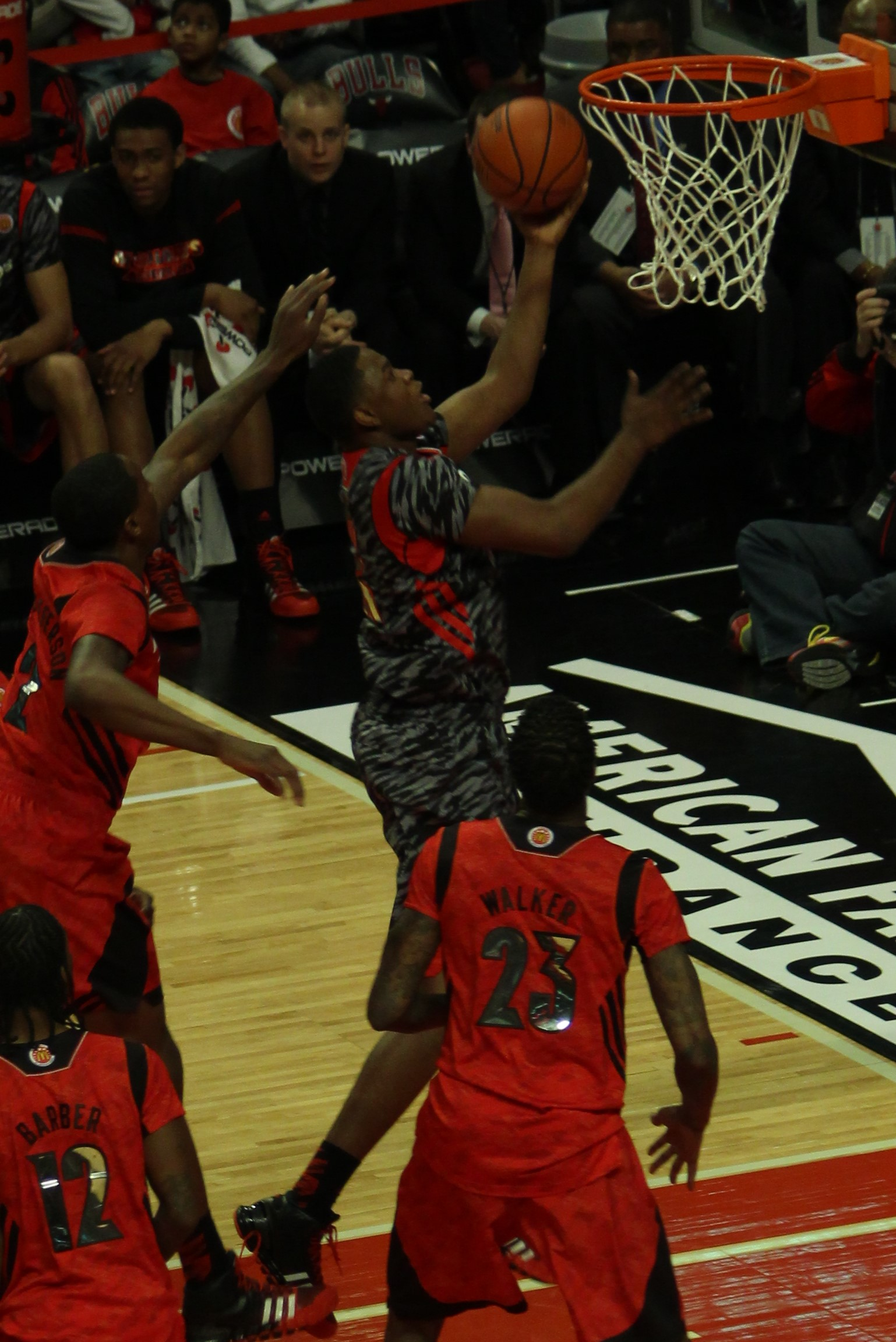 Jarell Martin at the w:2013 McDonald's All-American Boys Game